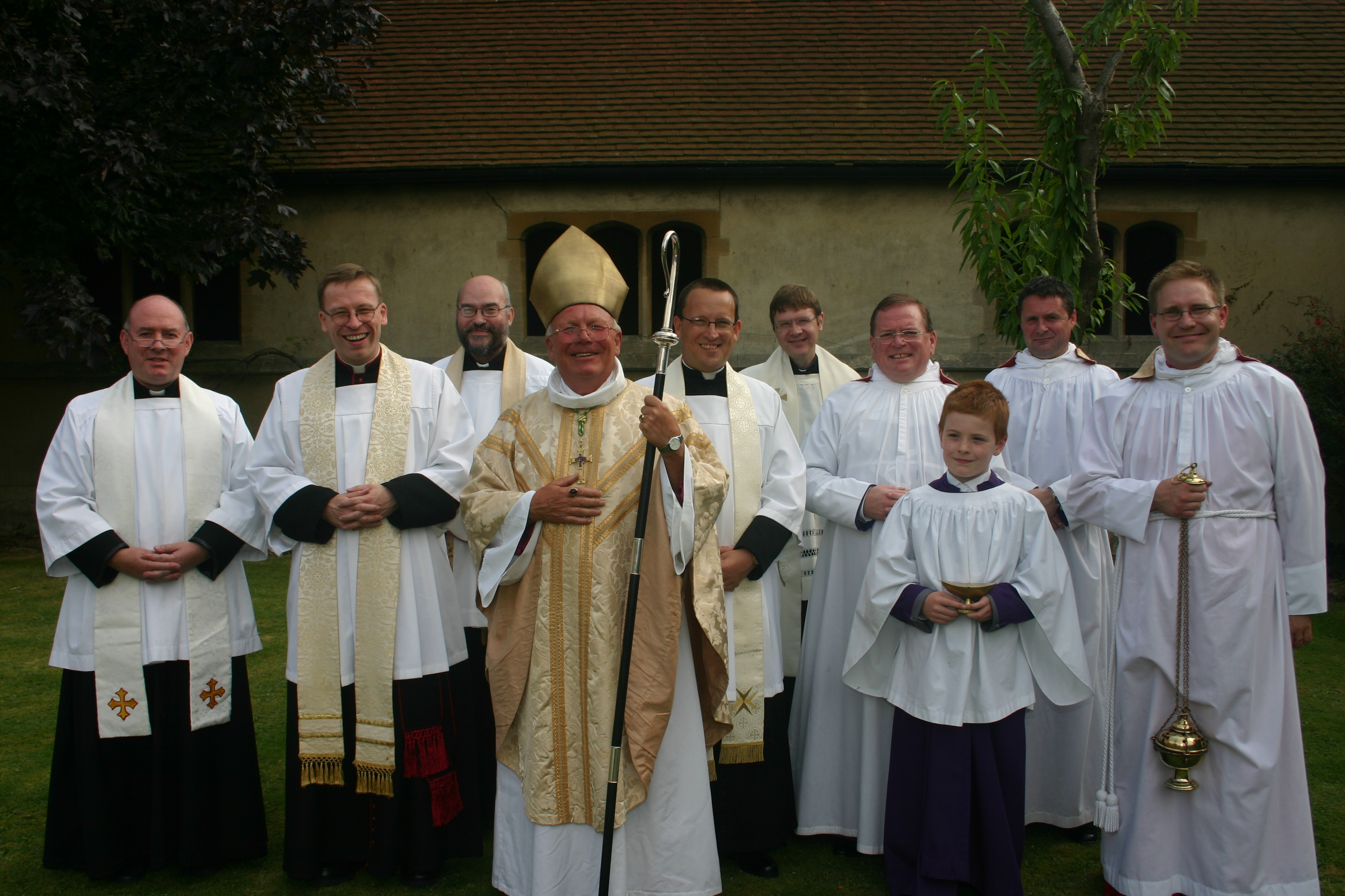 Bishop Edwin Barnes and other clergy